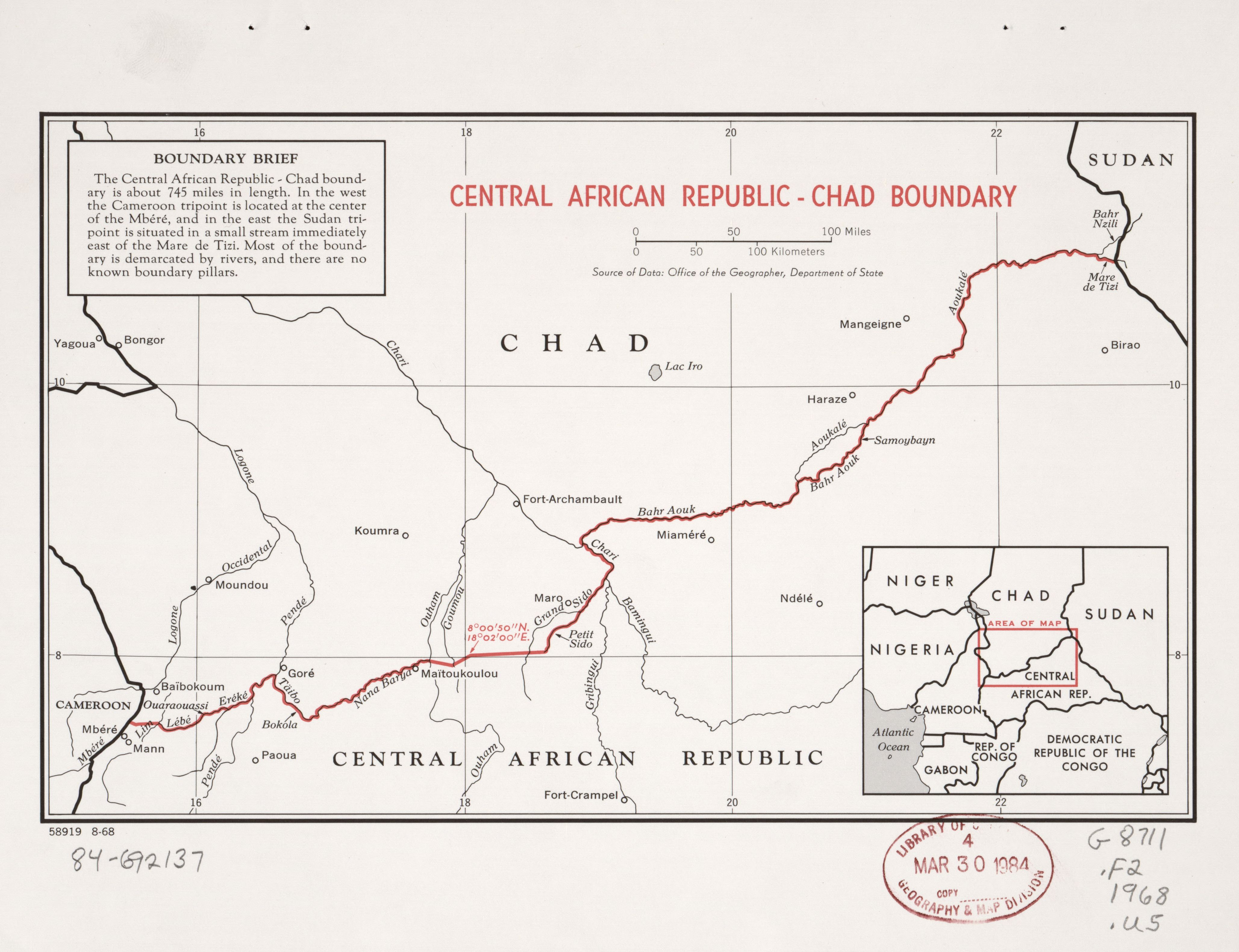 "58919 8-68." "Source of data: Office of the Geographer, Department of State." Includes note and key map. Available also through the Library of Congress Web site as a raster image.